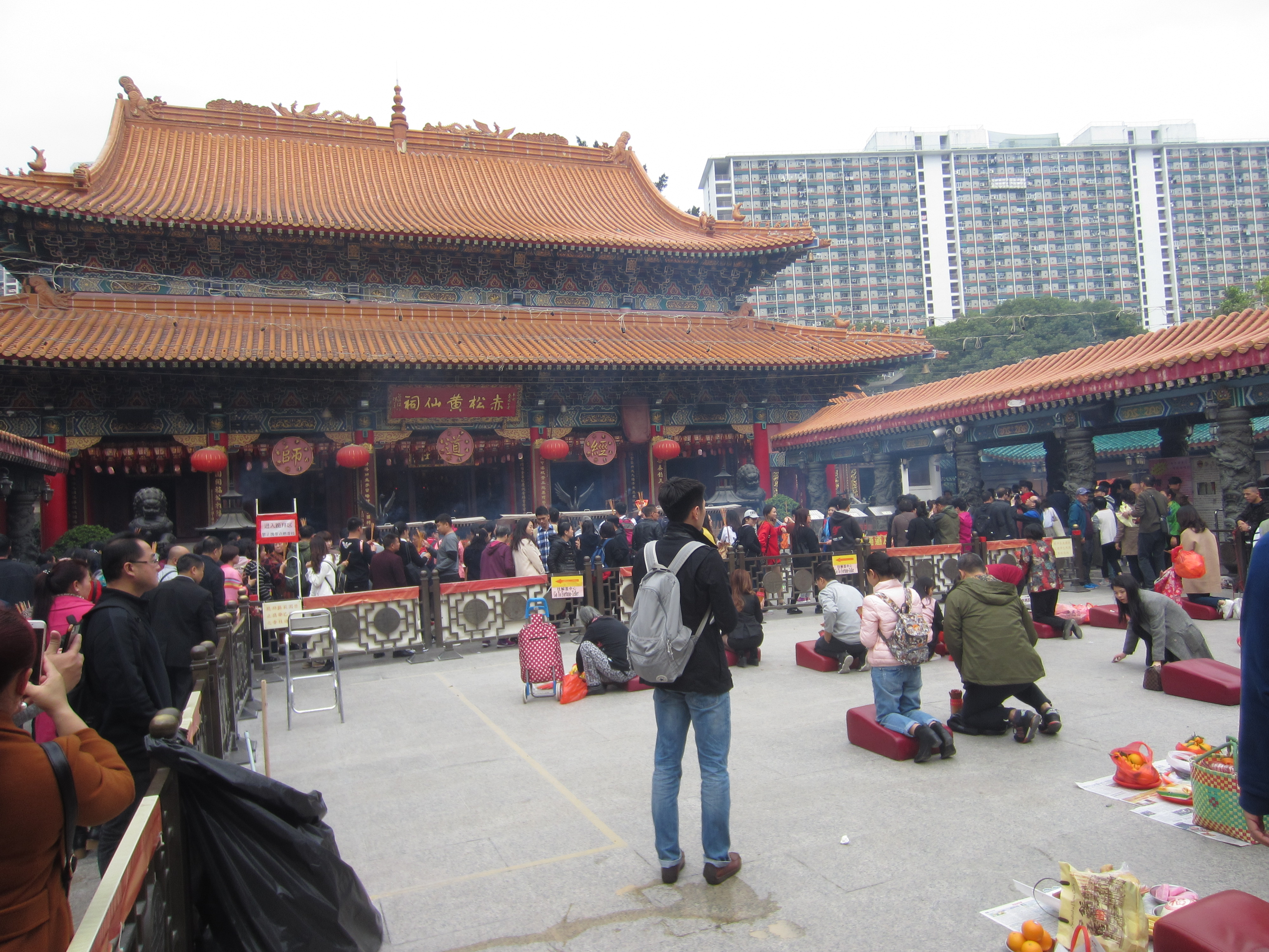 Hong Kong (November 2017)